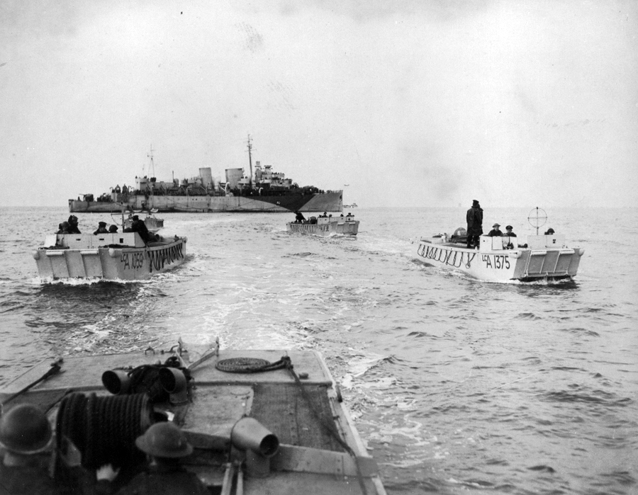 Royal Canadian naval Photograph, negative No. A679